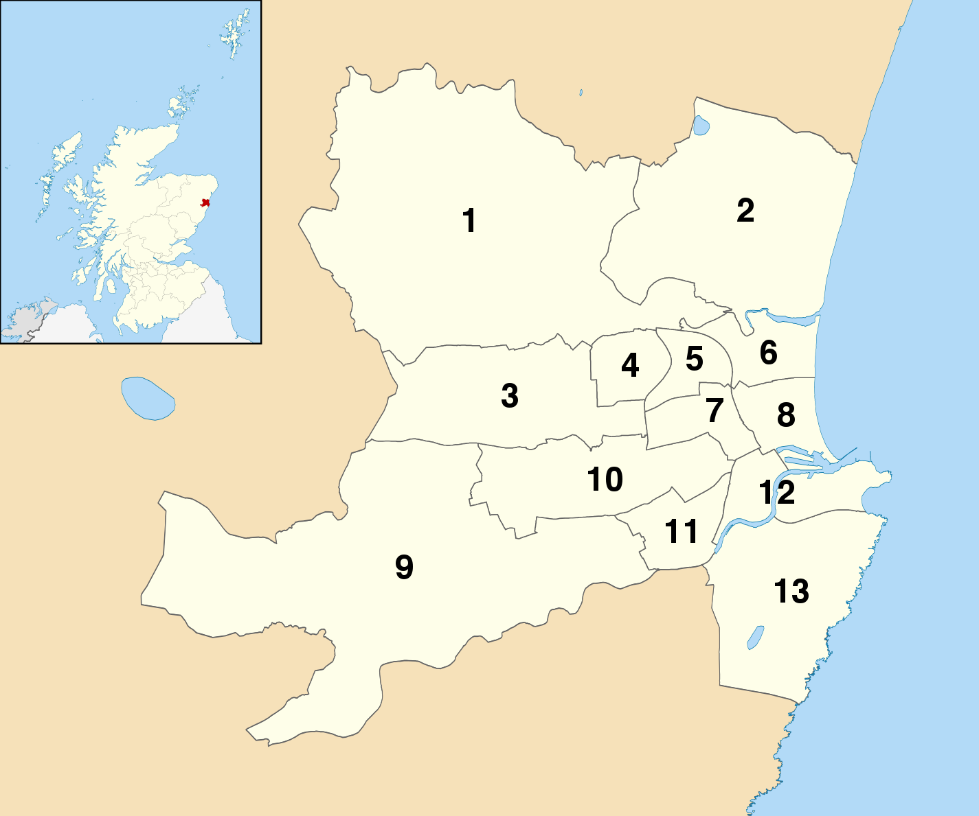 Council wards of Aberdeen labelled with numbers